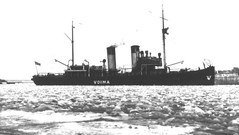 Finnish icebreaker Voima, later handed over to the Soviet Union.